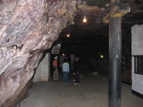 Inside Chislehurst Caves. Taken by C Ford, June 2004.